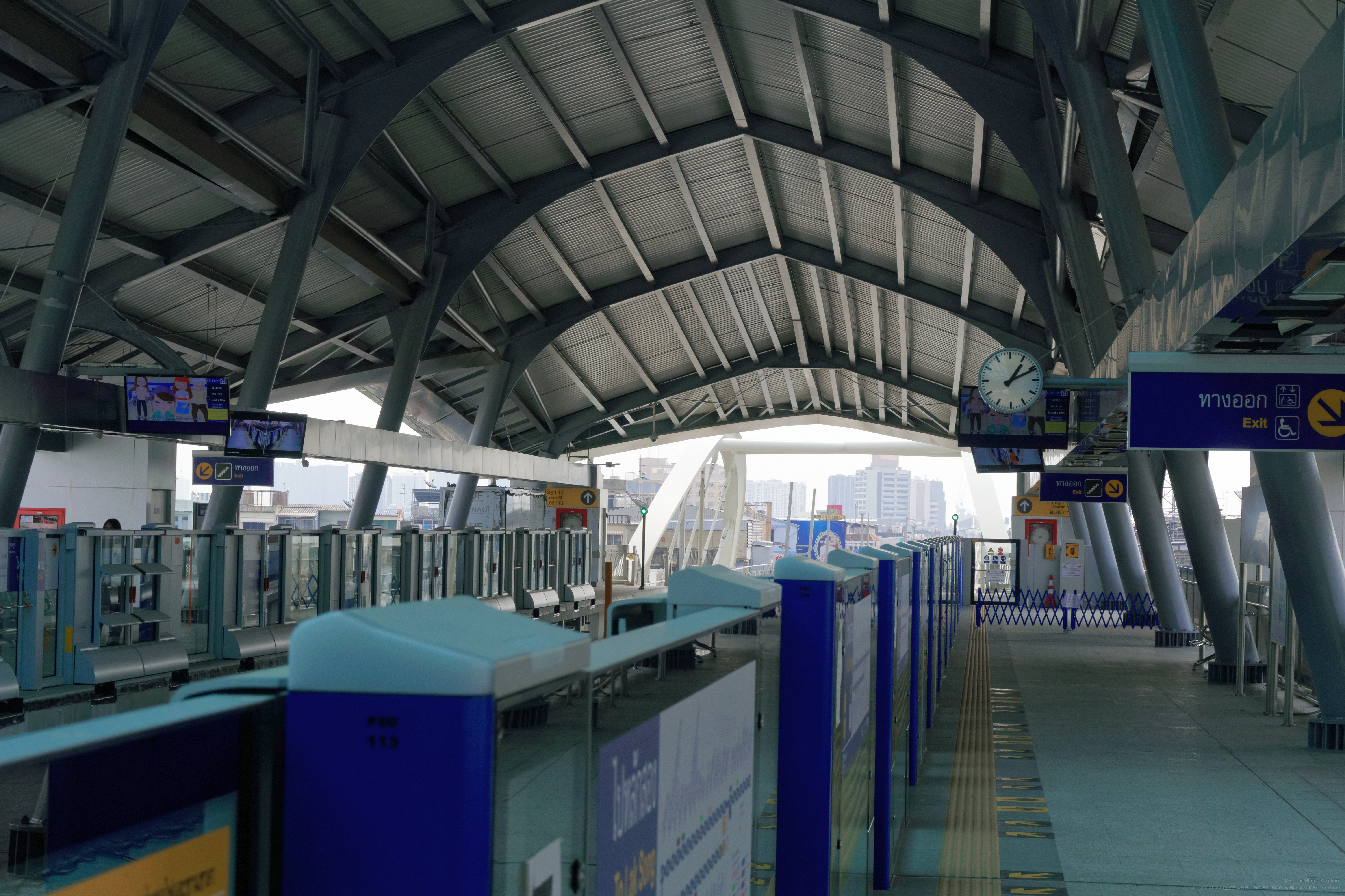 MRT Fai Chai – Platform – outside